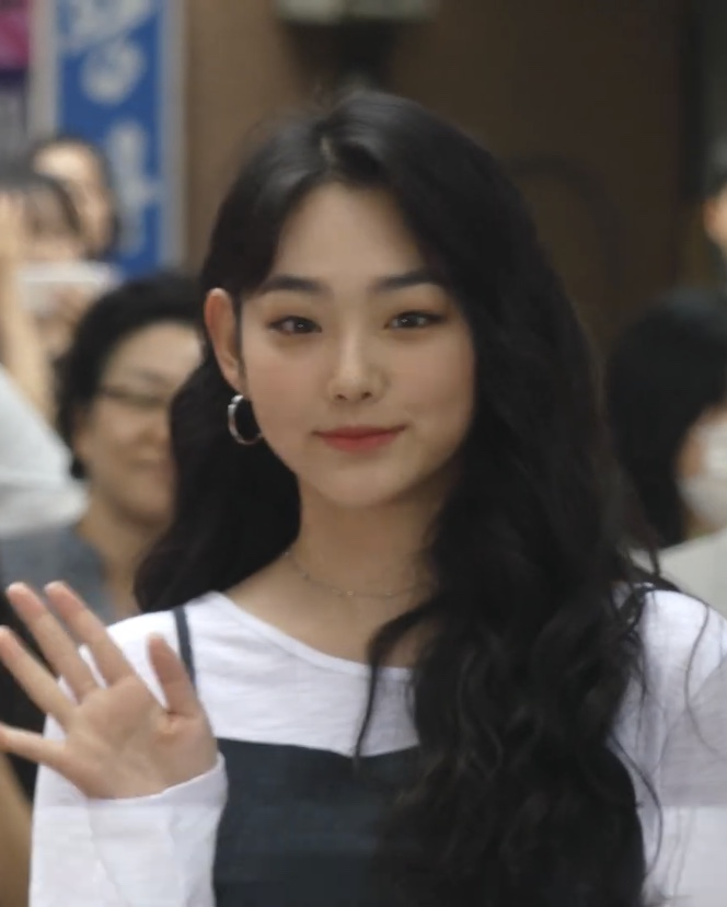 Kang Mi-na on September 1, 2019 for Hotel del Luna